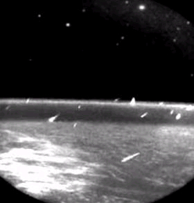 Leonid seen from space.